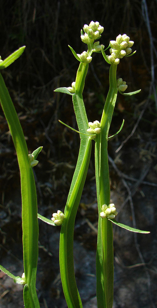 The triangular stems of this odd species give it the name of Tres Esquinas. In context at